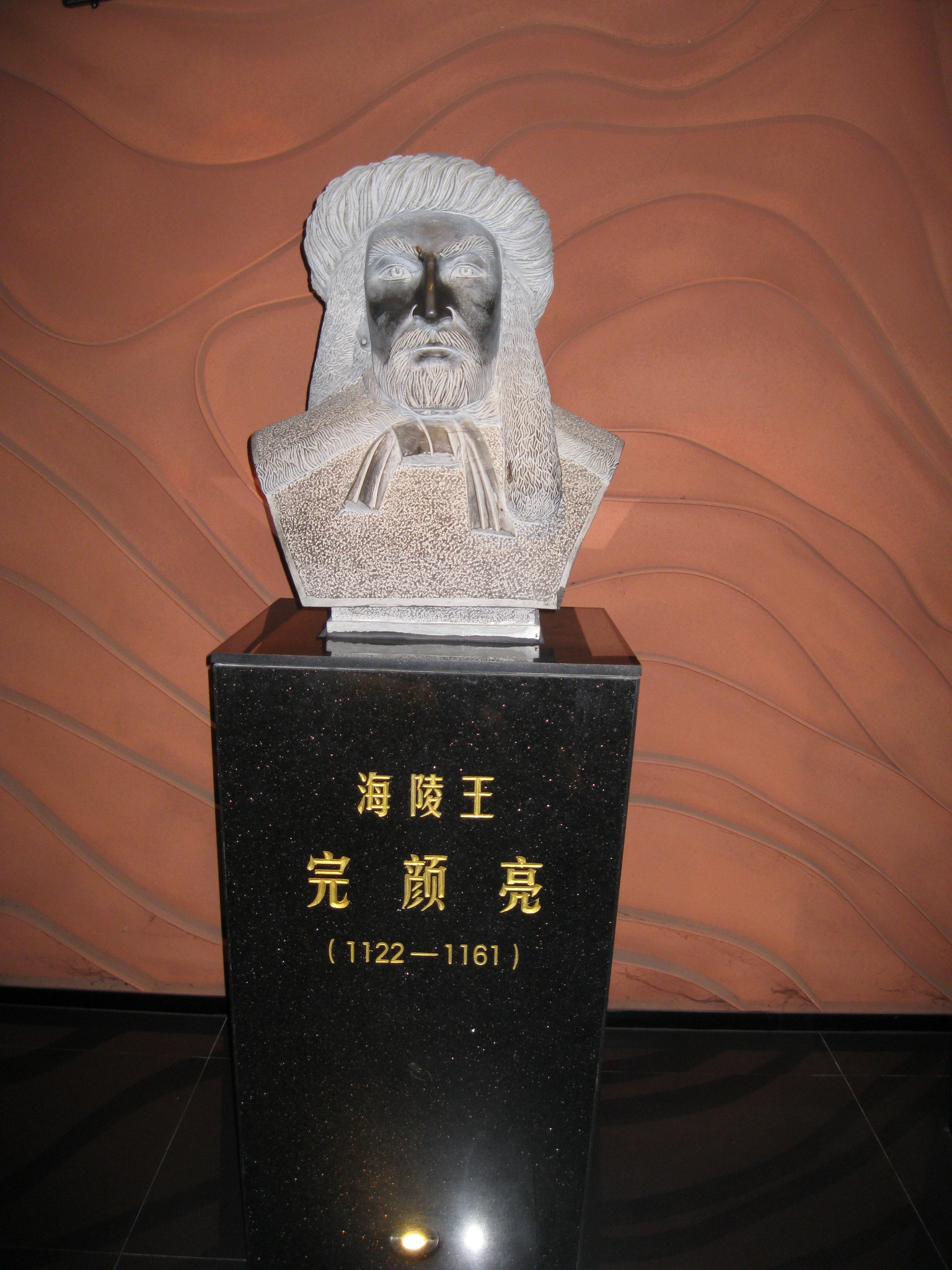 Wanyan Digunai, 4th emperor of Jin dynasty. Museum of the First Capital of Jin (Harbin)